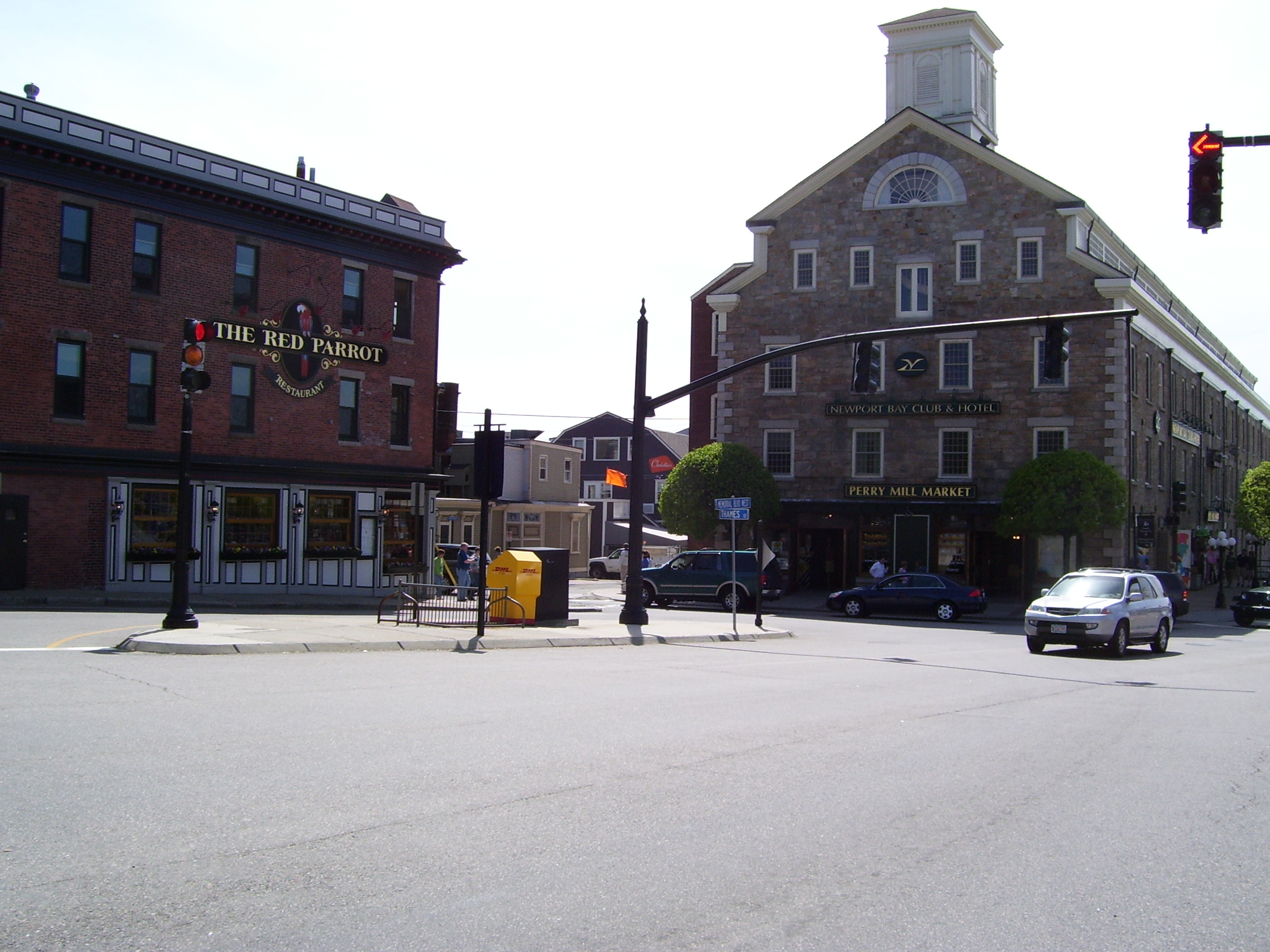 This is my photo of the Perry Mill in Newport, Rhode Island from 2008